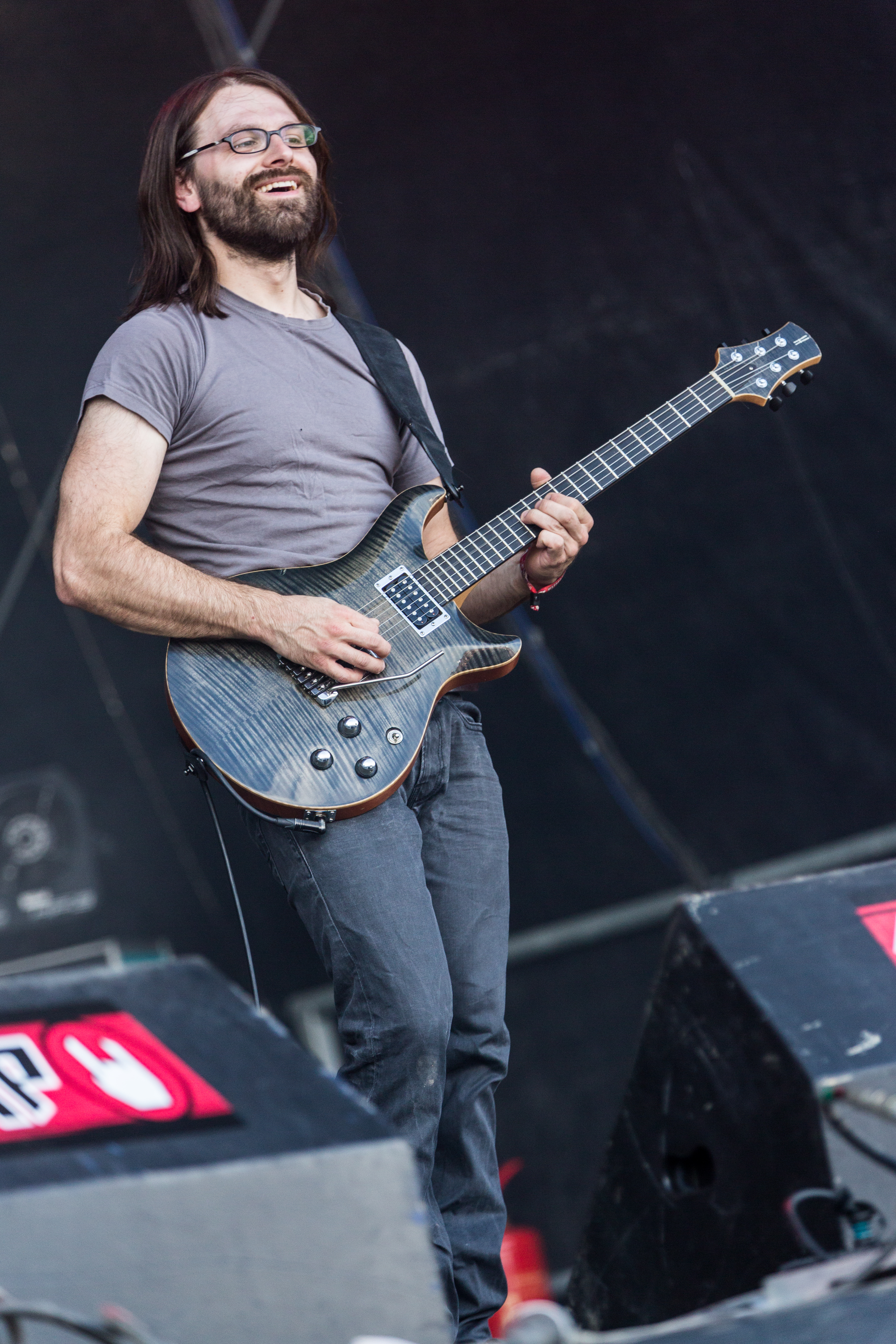 The German post-rock band Long Distance Calling at the Summer Breeze Open Air 2017 in Dinkelsbühl/Germany.